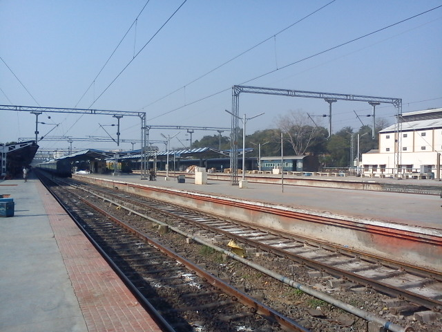 Madurai Junction 2nd & 3rd Platforms